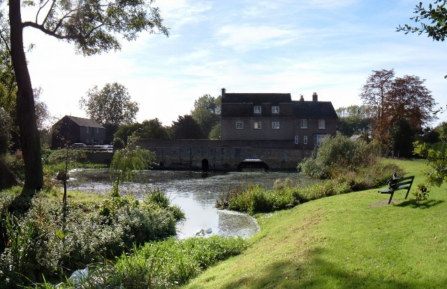 Grantchester Mill Pond A semi-panoramic view of the Grantchester Mill Pond.